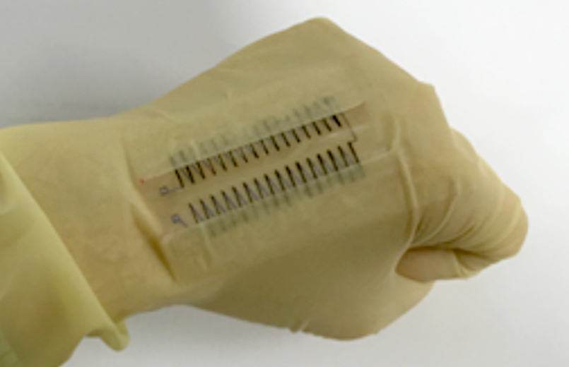 PEDOT:PSS thermoelectric generator embedded in a glove for the generation of electricity by human body heat.